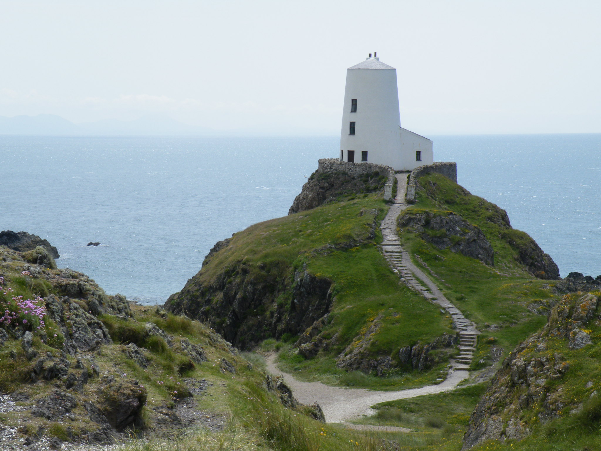 yr hen oleudy, Llanddwyn